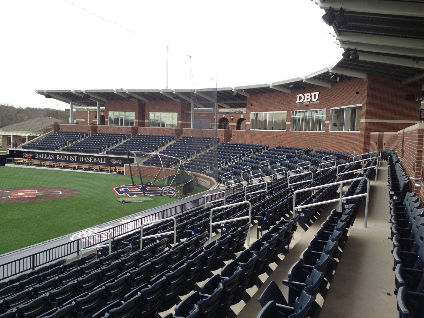 The Joan and Andy Horner ballpark, completed in 2013. Designed by HKS Architects, the venue can accommodate over 2000 fans.